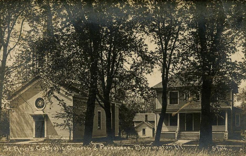 St. Anne Catholic Community, Barrington, Illinois - 1910 photo postcard.